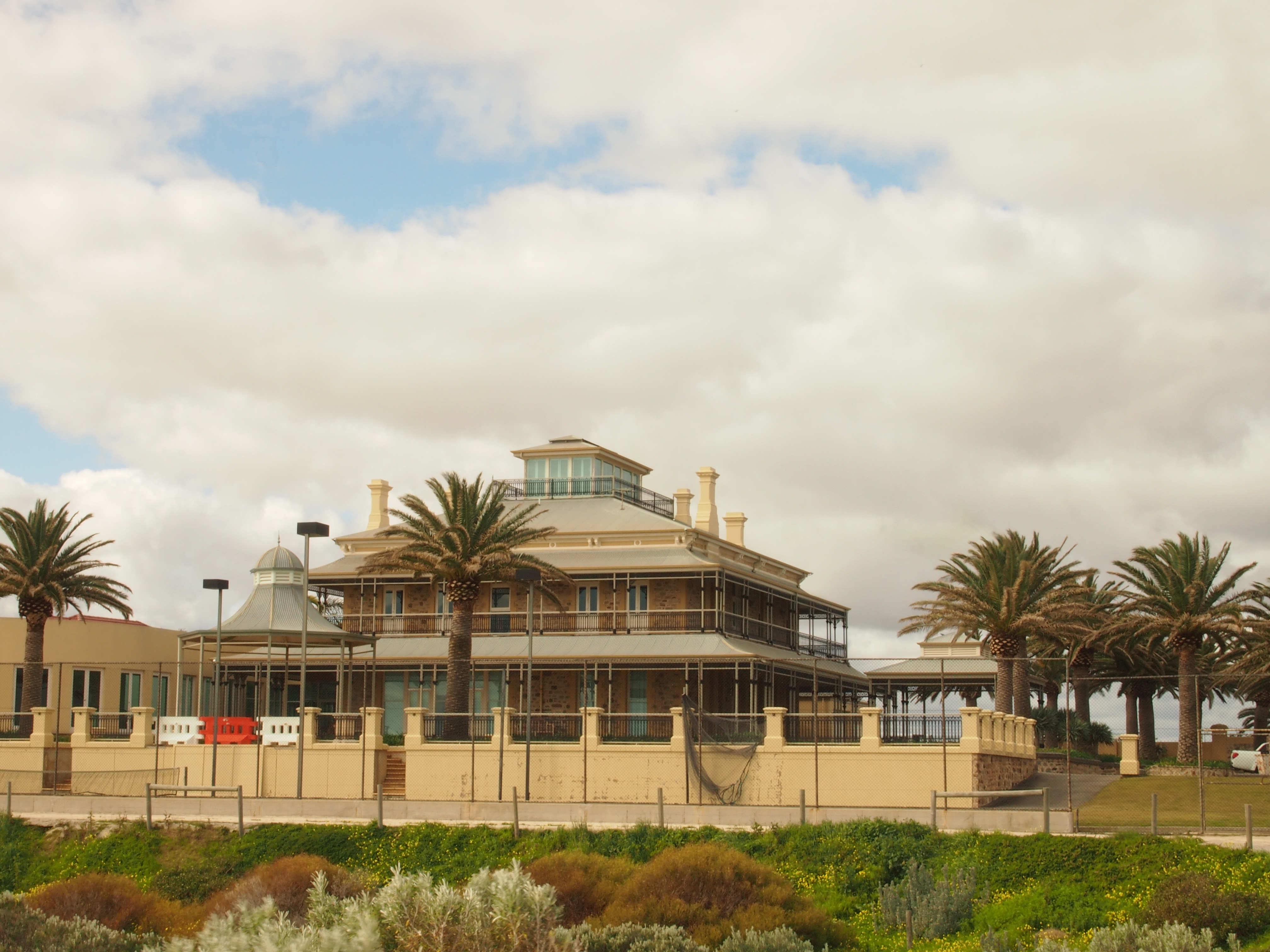 Estcourt House, Tennyson, South Australia, built by Frederick Estcourt Bucknall in 1881-3. Original filename = P8174039.JPG; dust spot on lens removed from photo.